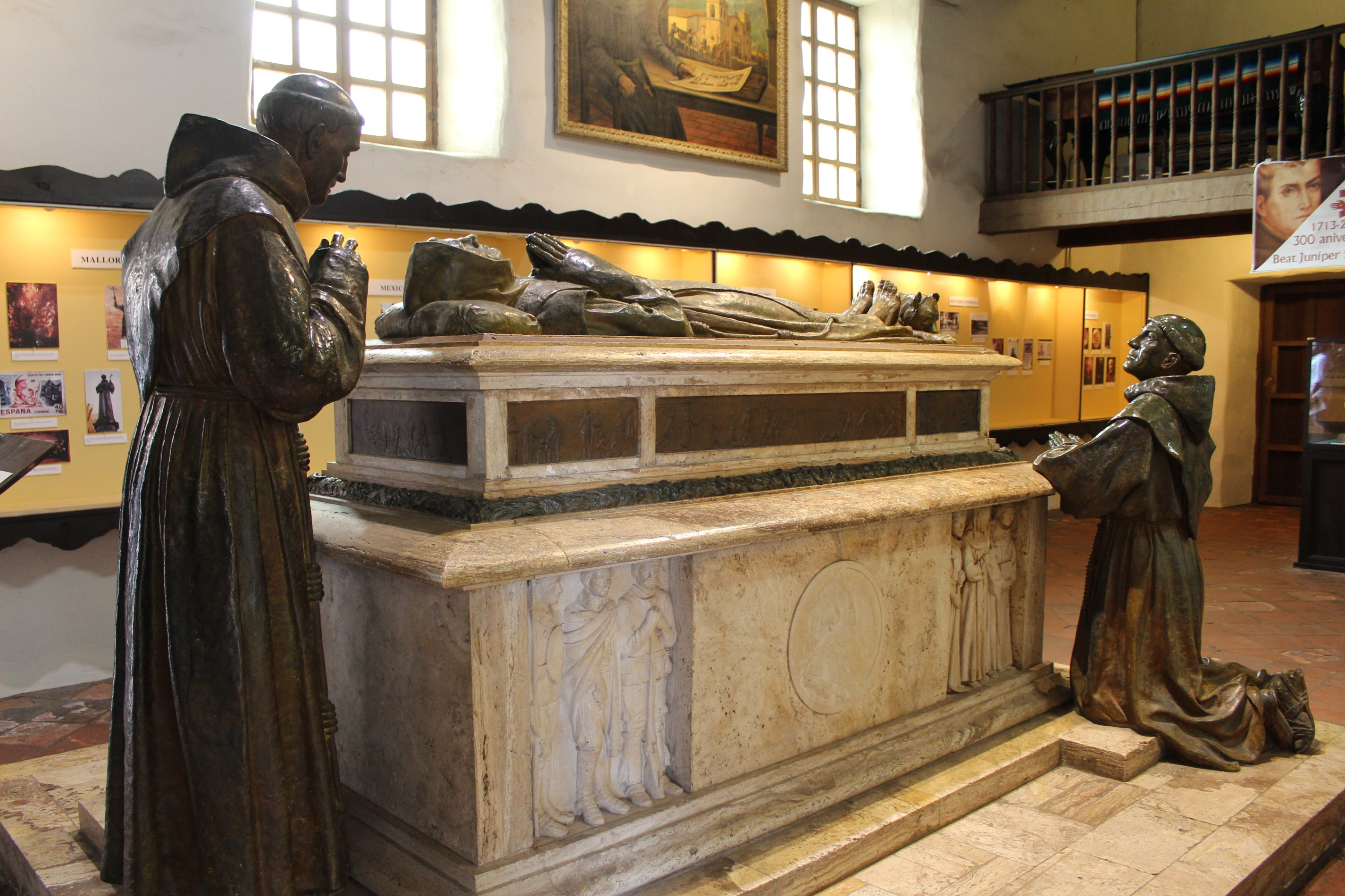 Carmel, CA USA - Mission San Carlos Borromeo